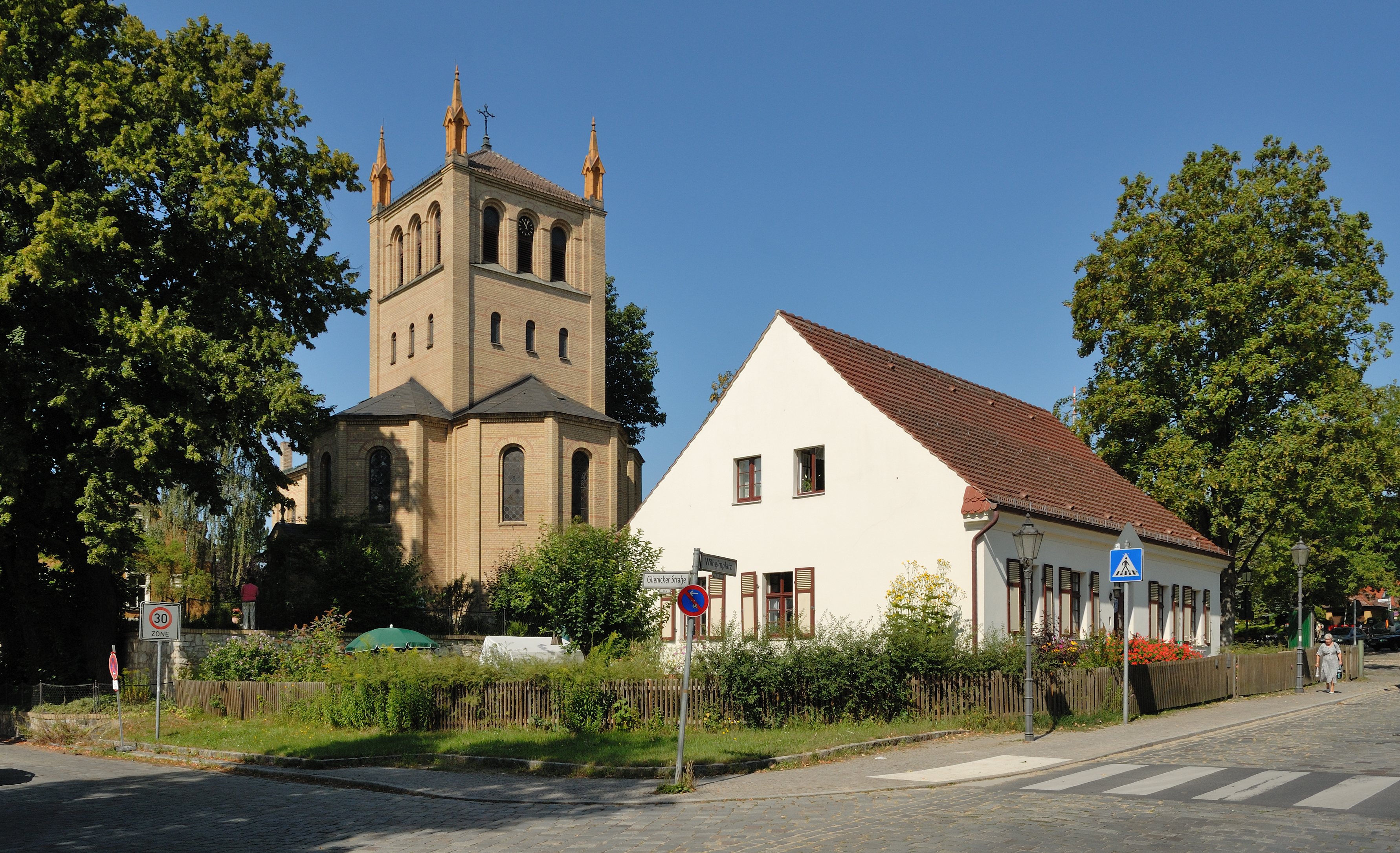 "Kirche am Stölpchensee", a Lutheran village church at Wilhelmplatz, Berlin-Wannsee.